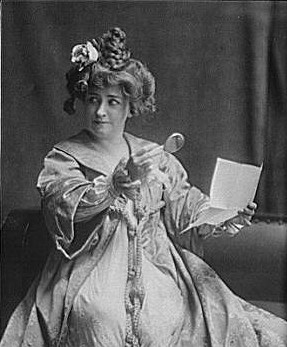 Title Portrait photograph of Minnie Maddern Fiske as Becky Sharp Contributor Names Genthe, Arnold, 1869-1942, photographer Created / Published between 1910 and 1942; from a negative taken ca. 1910. Subject Headings - Fiske, Minnie Maddern,--1865-1932--Performances. - Actresses. Format Headings Lantern slides. Portrait photographs. Notes - Title in part from a similar image in: As I remember / Arnold Genthe. New York : Reynal & Hitchcock, 1936, after p. 106. - Purchase; Genthe Estate; 1942 or 1943. - ID: LC-G399-4211-B; 1910? Medium 1 slide : lantern ; 4 x 5 in. or smaller. Call Number/Physical Location LC-G4085- 0413 [P&P]